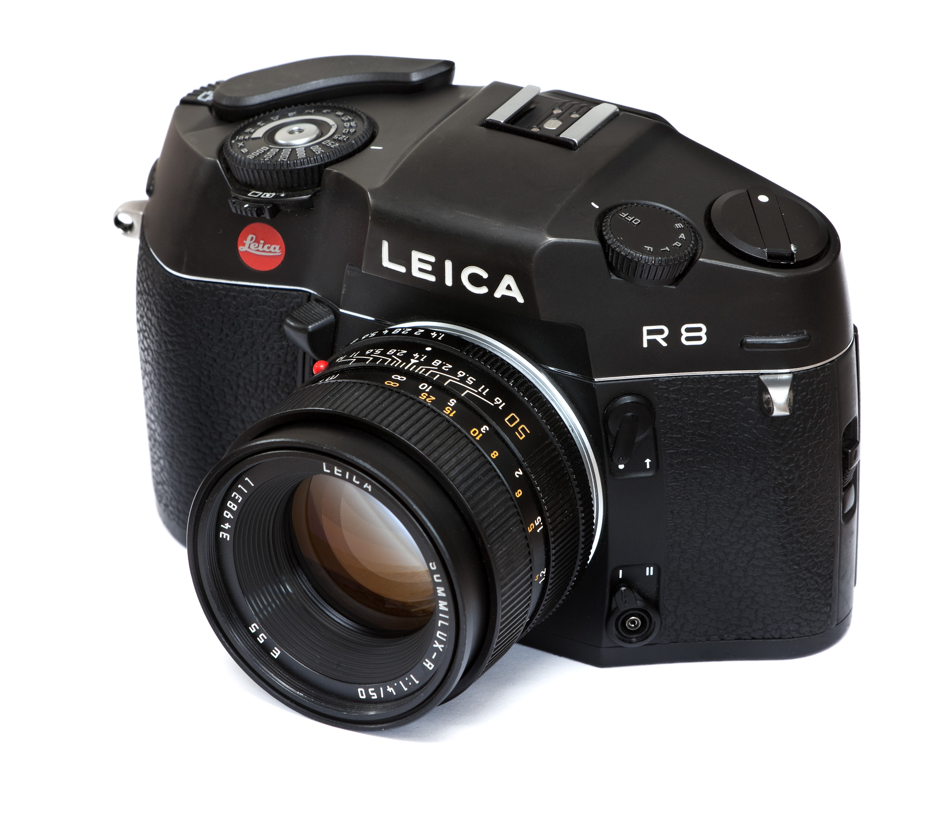 Leica R8 #2421972, with 50mm f/1.4 Summlux-R #3498311